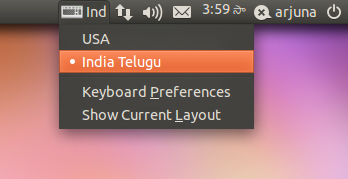 Onscreen keybaord Indicator Ubuntu with Telugu UI